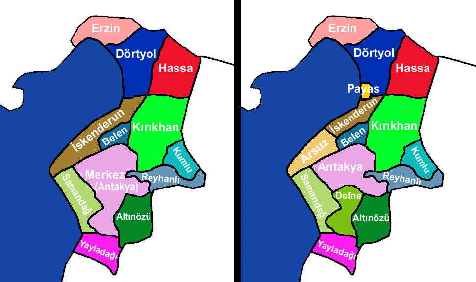 Hatay'daki kurulan yeni ilçelerin gösterimi